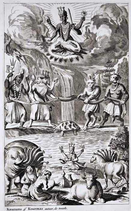 A depiction of some avatars from 'Asia: the first part... The Vast Empire of the Great Mogol and Other Parts of India...' by John Ogilby, London, 1673: also *Matsya*; *Kurma*; *Varaha* (shown above); *Narasingha*; *Rama*; *the Buddha*; also *a Shiva temple*